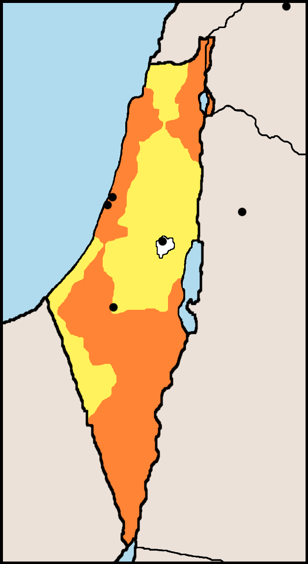 created by tracing a public domain image from [1] for the labelled version, see here: Image:UN_Partition_Plan_For_Palestine_1947.png. The unlabelled version here is easier for translators to modify.